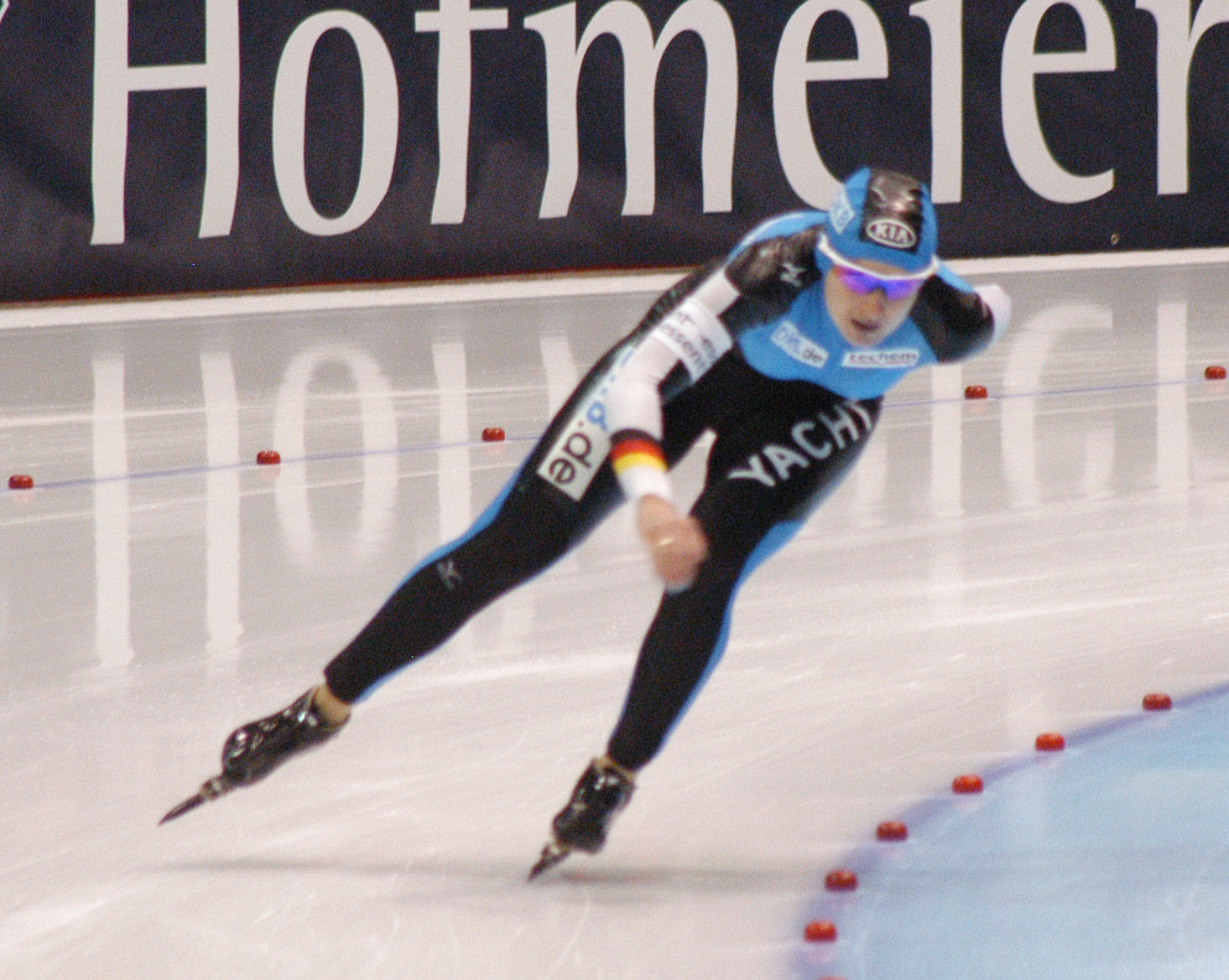 Daniela Anschütz-Thoms (GER) in action at a World Cup Speedskating in Heerenveen, the Netherlands.